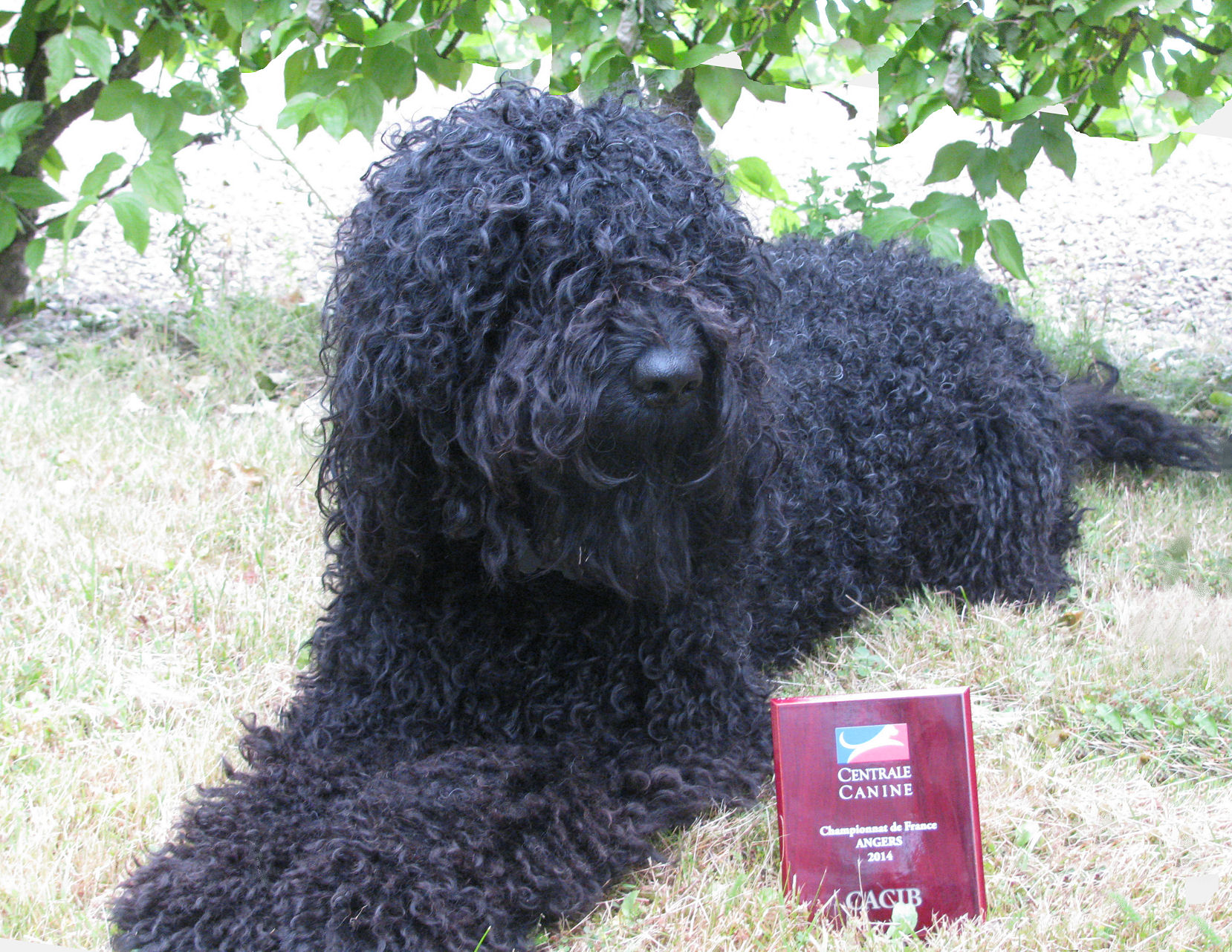 Charamese Hermione, Best barbet female at the Championnat De France, Angers 2014